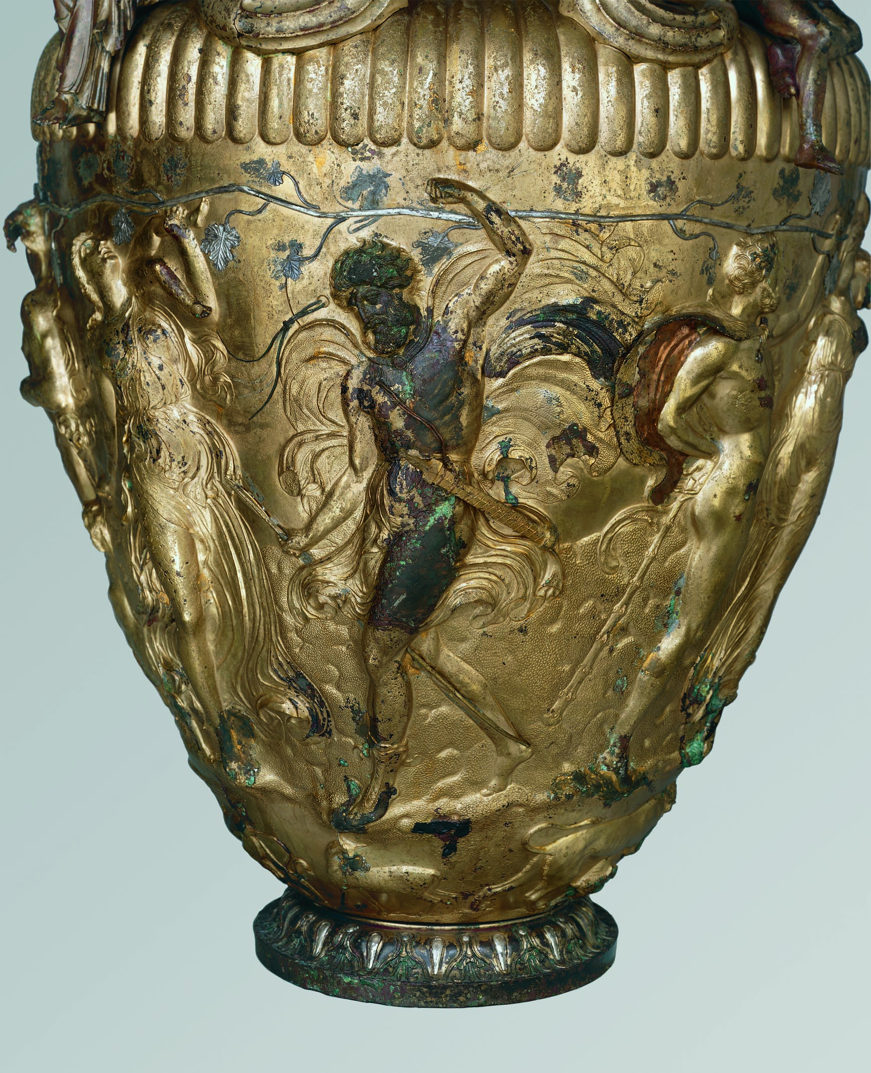 Pentheus dressed as an armed hunter.